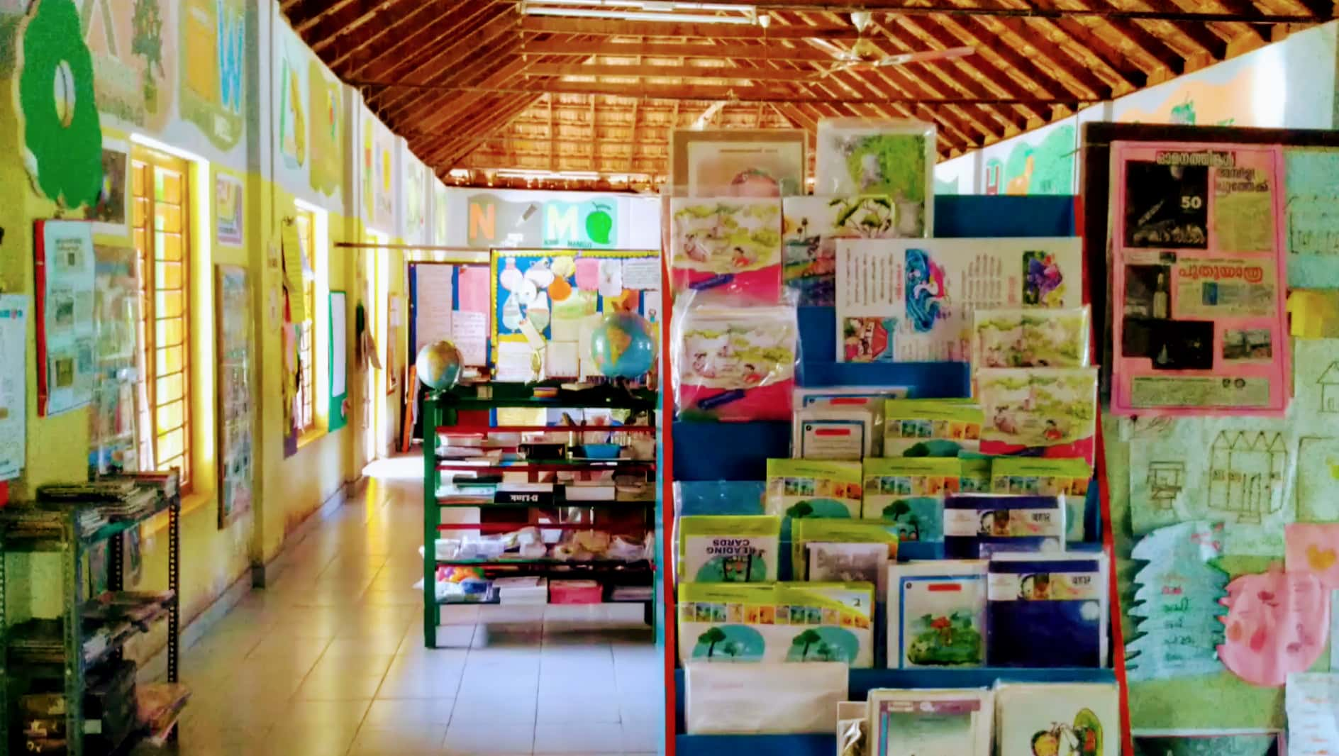 Classroom view of GLPS Kadampanad Bhagavathipuram Aruvikkara